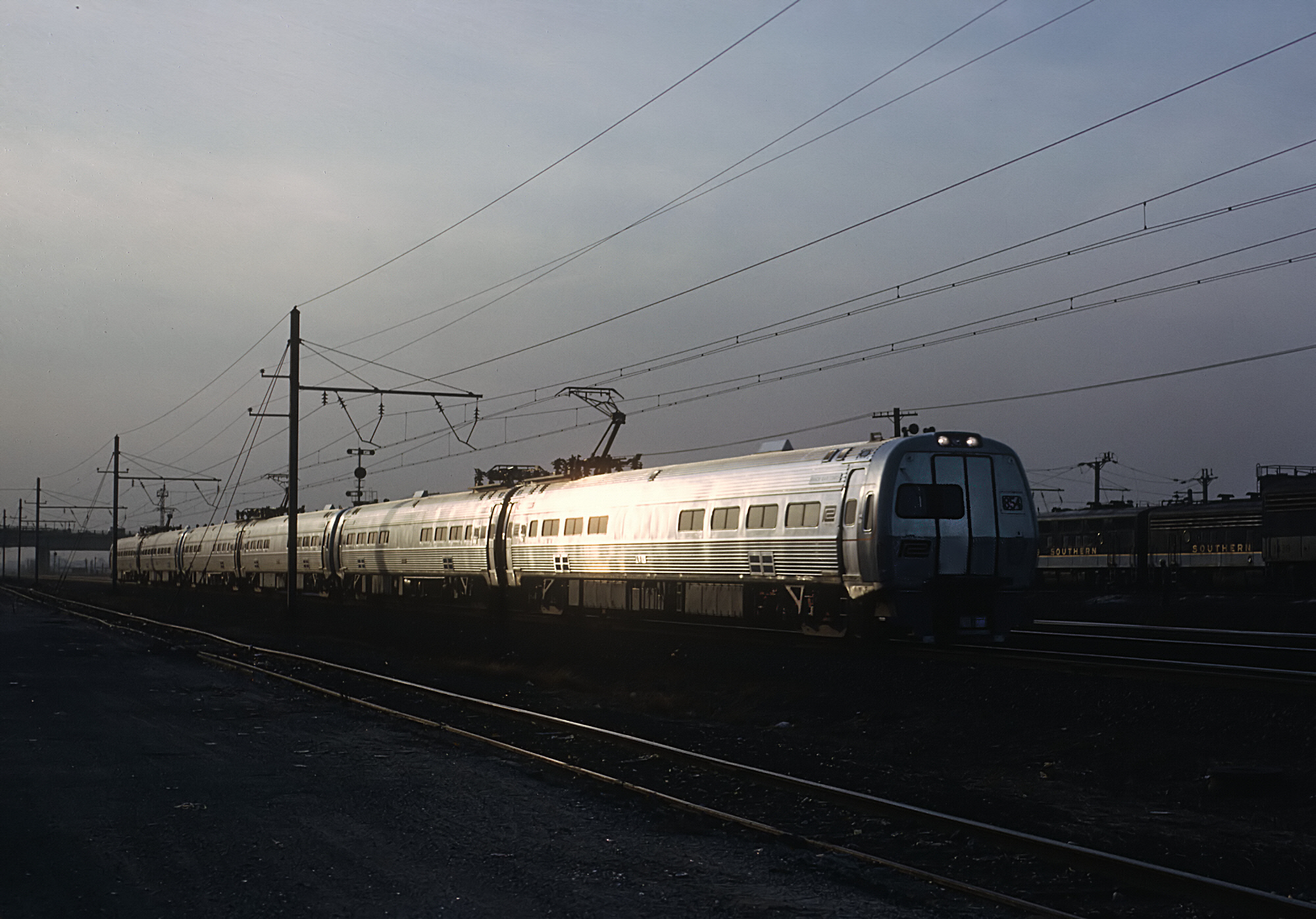 The first revenue Metroliner trip passes Ivy City Yard on January 16, 1969